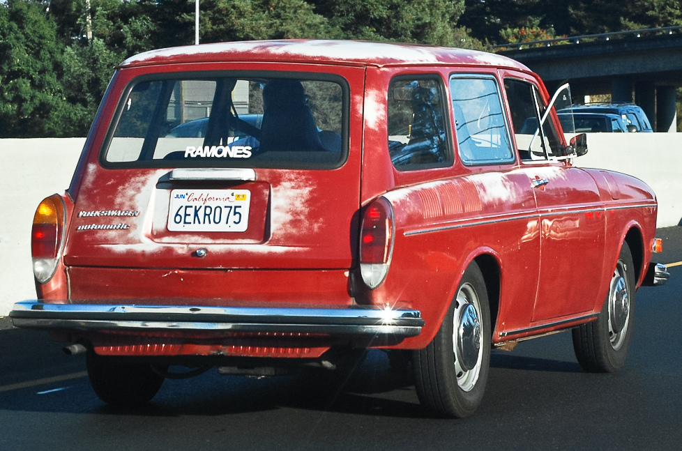 Red VW